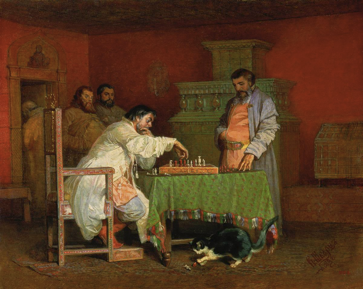 In the picture tsar Alexis I of Russia is playing chess. The picture is exhibited in the Russian museum in Saint-Petersburg, Russia.